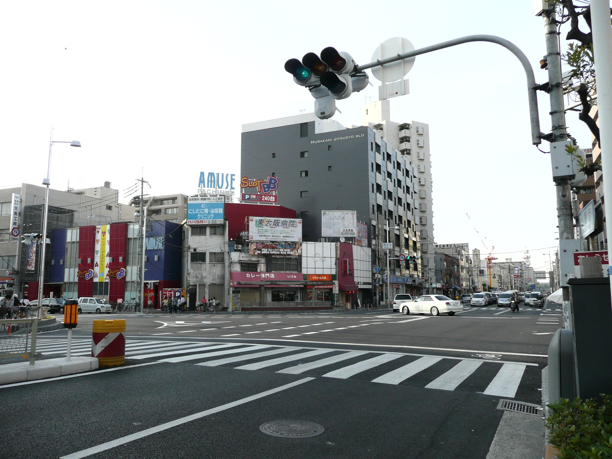 Gamo 4chome intersection,Joto,Osaka.